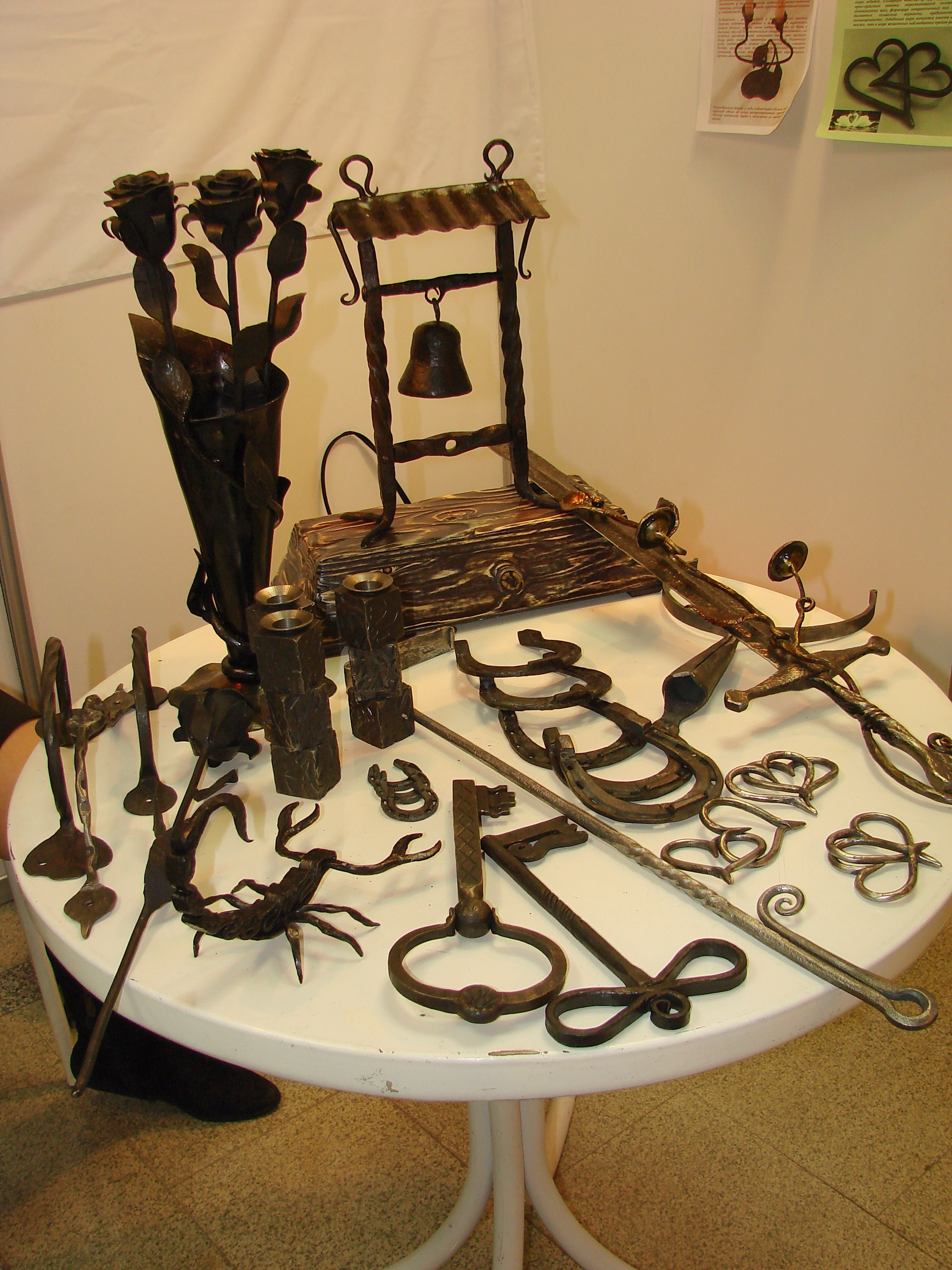 Russia, Vologda, Exhibition «Gates to the North», samples of art forging